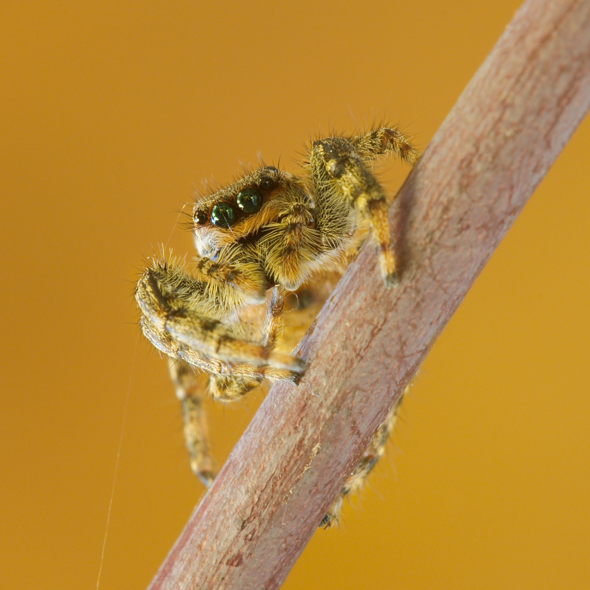 Marpissa muscosa jumping spider.